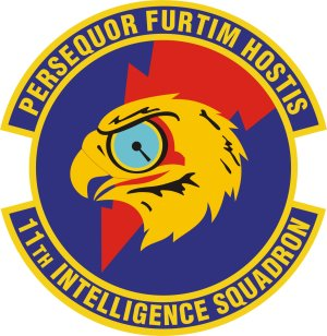 11th Intelligence Squadron emblem